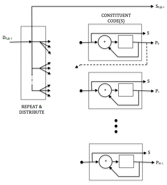 Diagram of an example LDPC Encoder